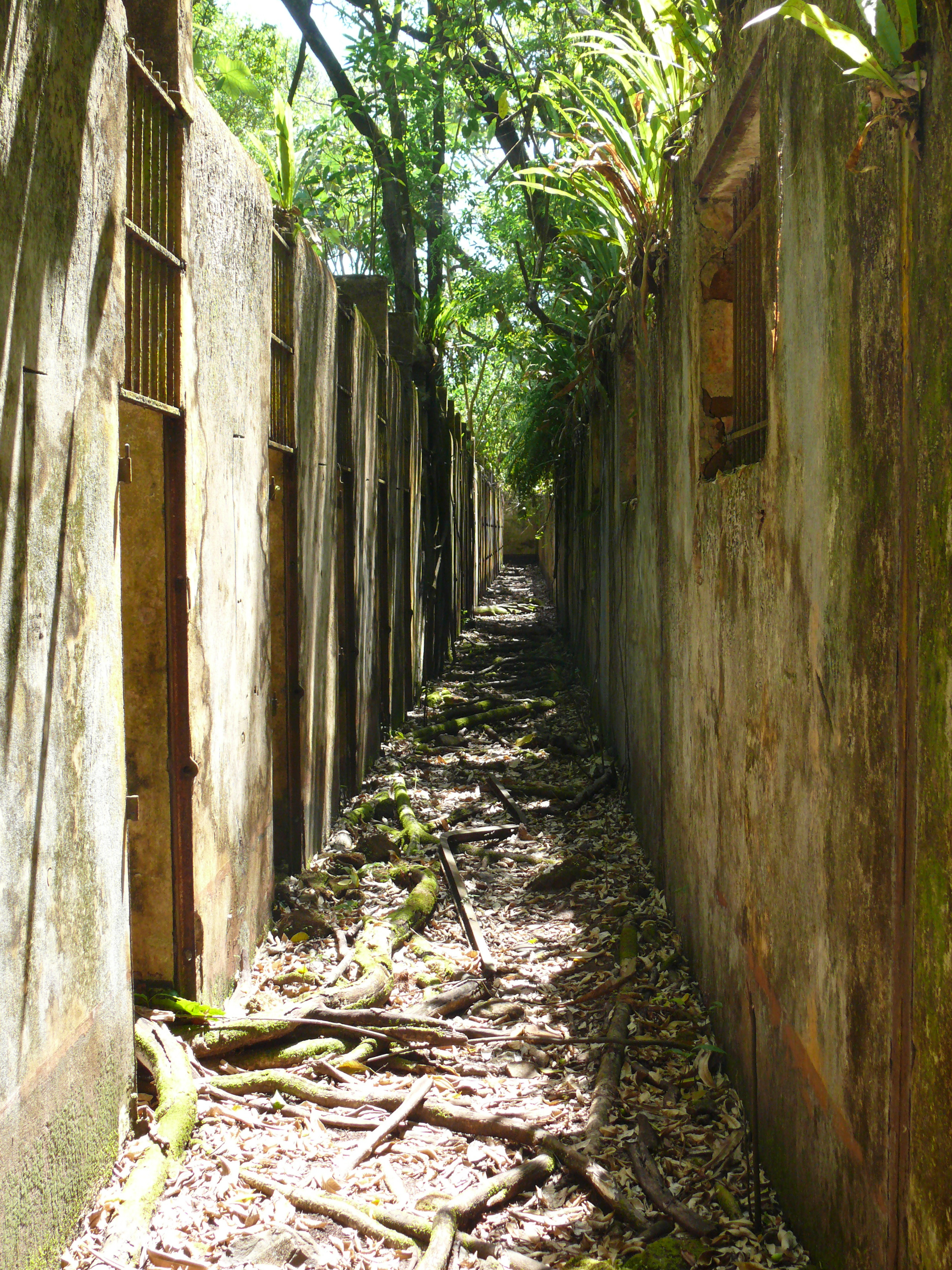 Corridor of the cellblock building with doors leading to the cells. Saint Joseph's Island, French Guiana.